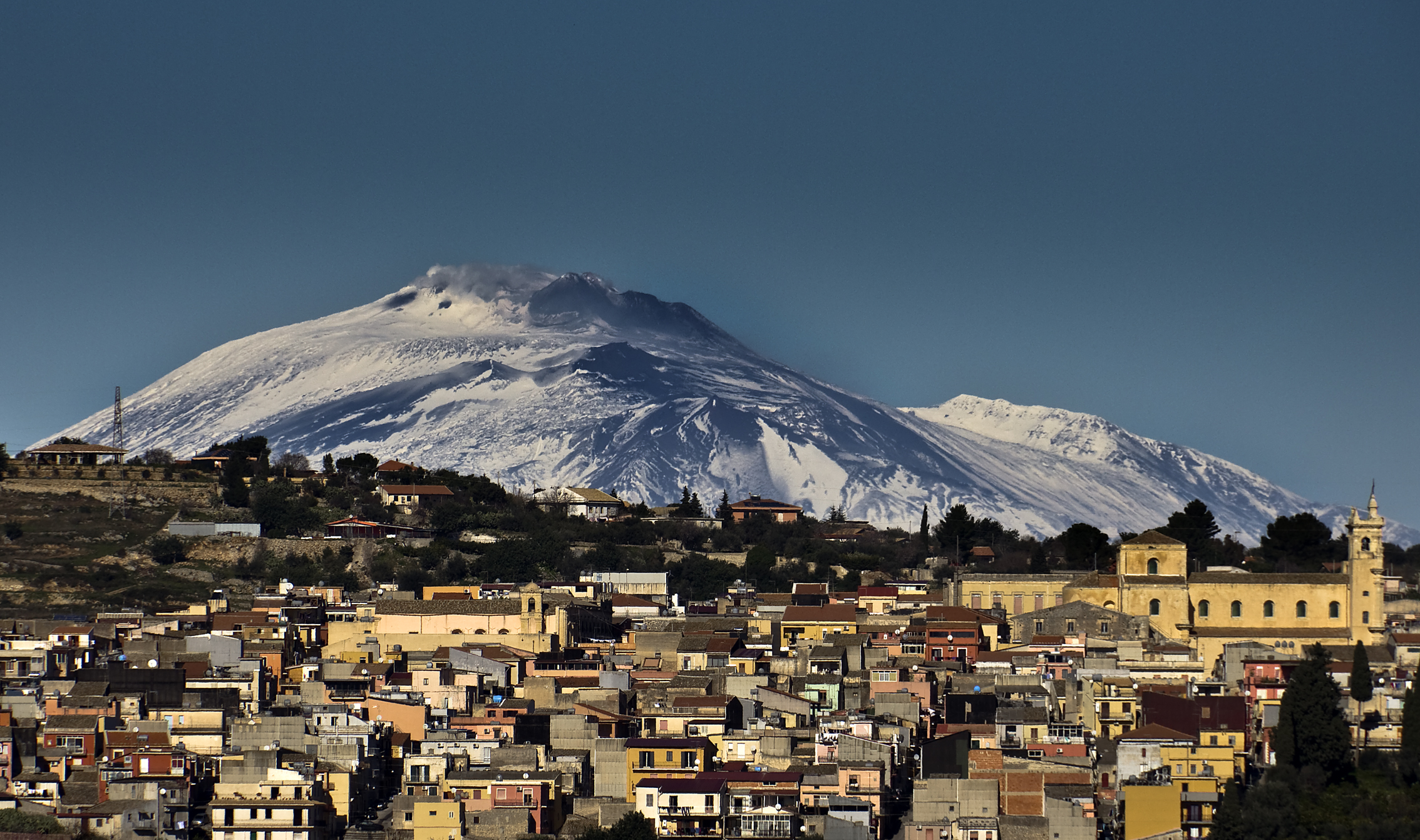 Sortino and Etna